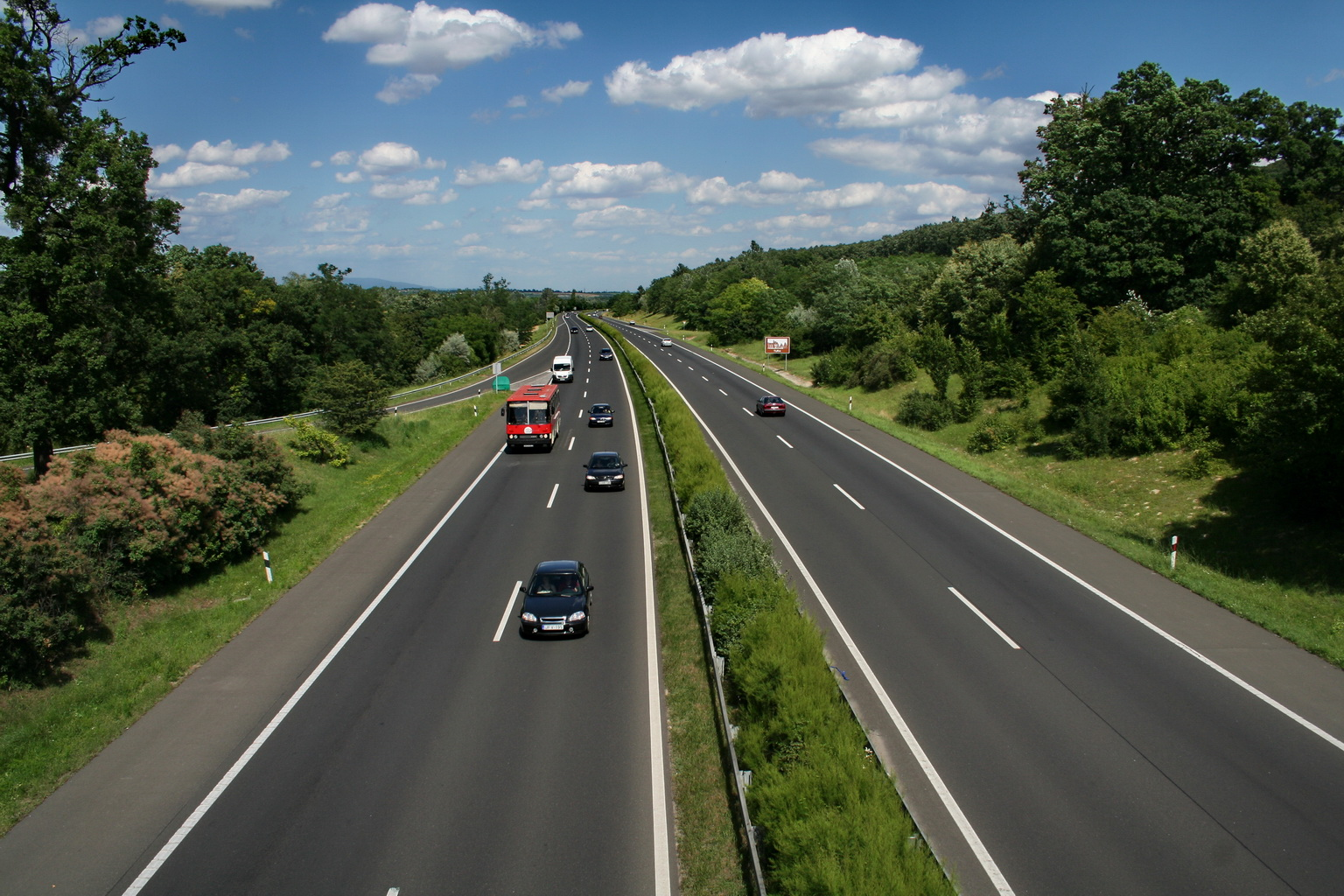 Rest-station Kisbag on M3-highway in Hungary